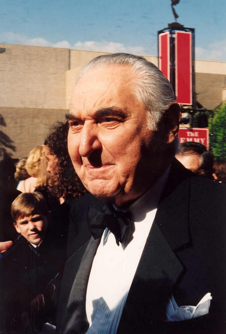 Fyvush Finkel on the red carpet at the Emmys 9/11/94